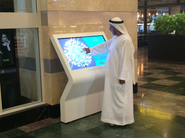 Digital Signage in der Abu Dhabi Mall - Terminal mit digitaler Wegeleitung kompas wayfinding